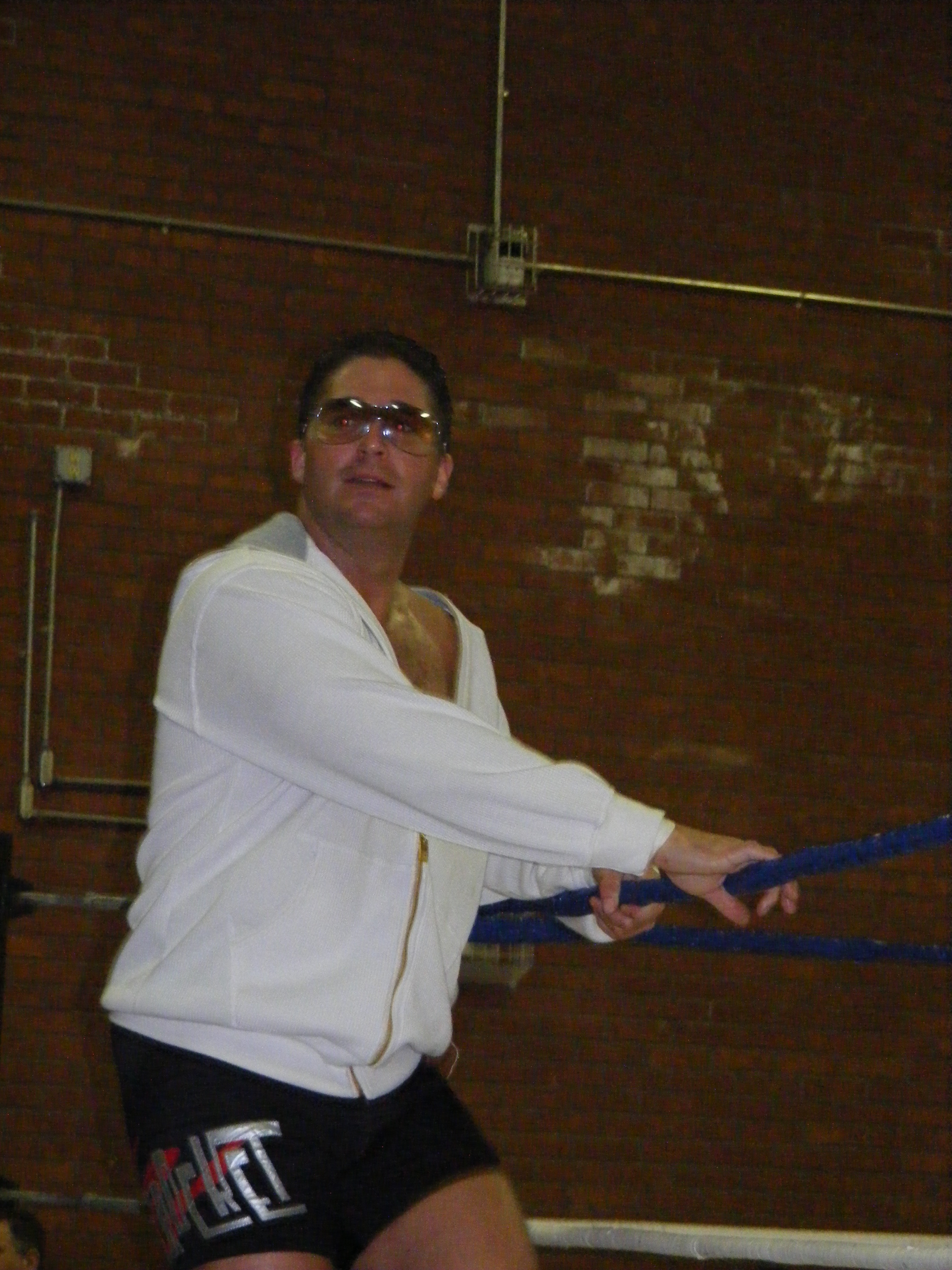 Rocket Fred Curry (aka Fred Curry Jr) at an NSW show on March 14, 2009 in Peabody, MA.